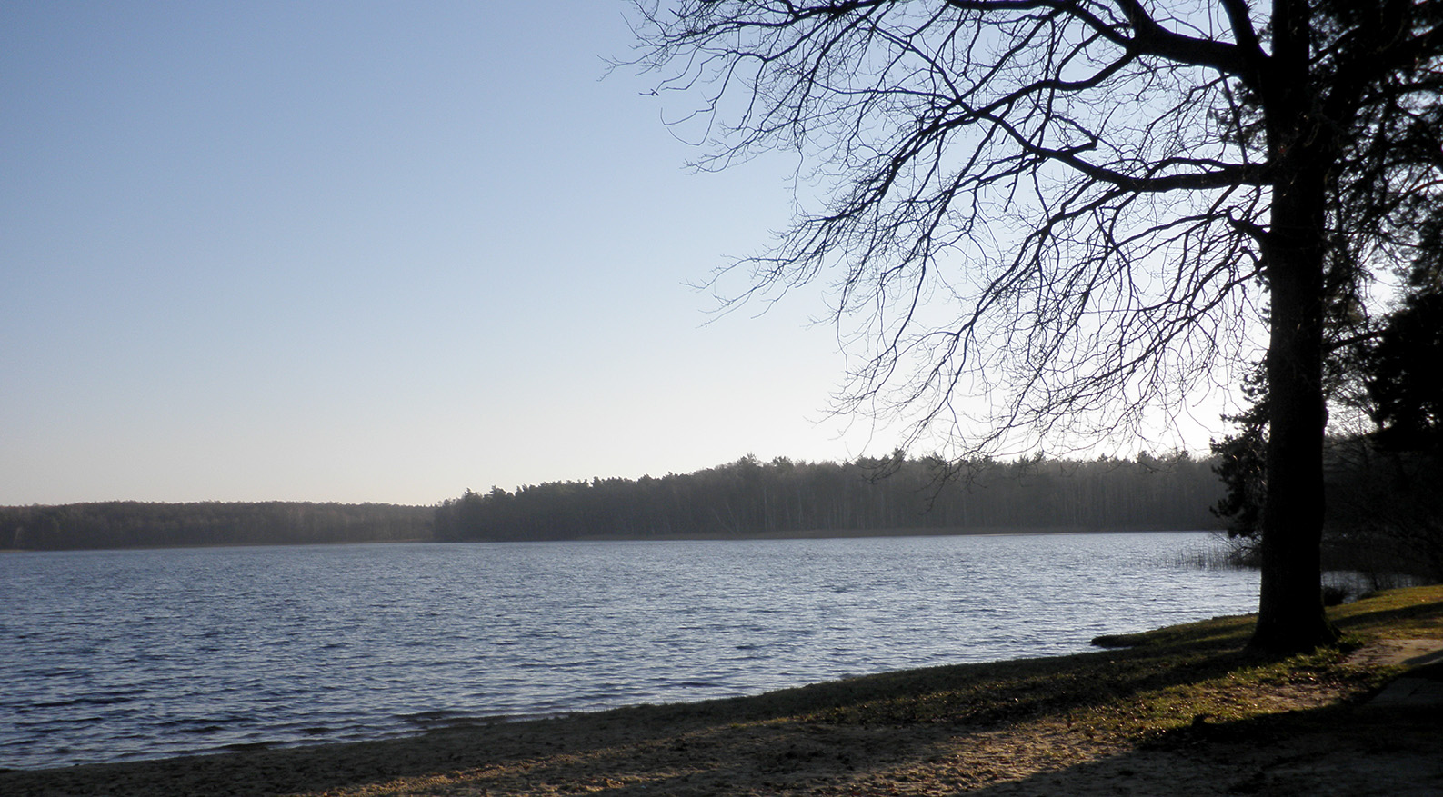 A beautiful lake surrounded by a pine wood, Brest district, 24 km to the South of Brest, BelarusObject location51° 49′ 00″ N, 23° 42′ 00″ E